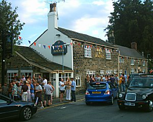 The Hare & Hounds pub in the village of Dore (Sheffield).